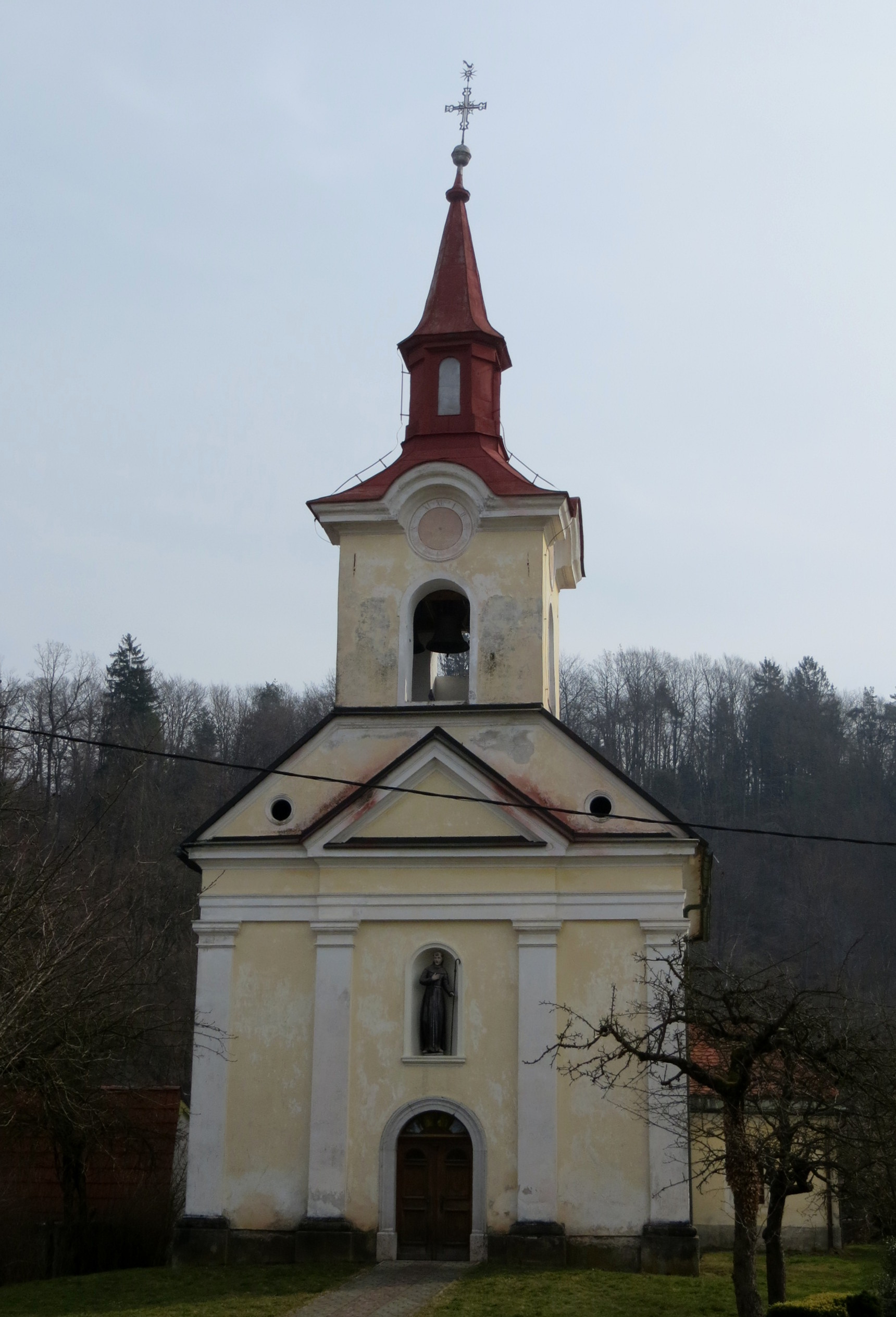 Saint Leonard's Church in Spodnje Gameljne, City Municipality of Ljubljana, Slovenia